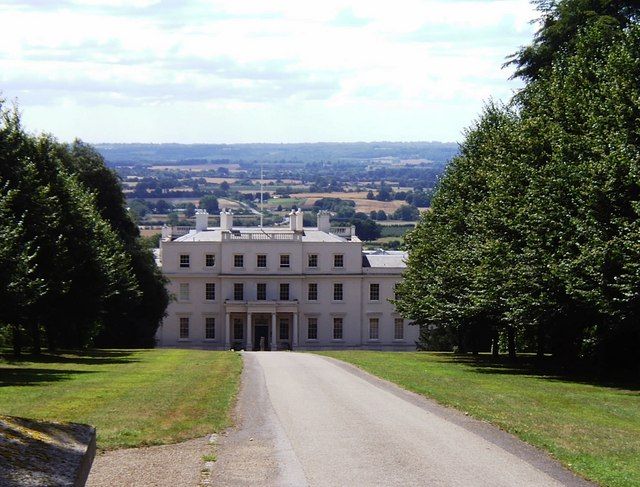 Linton Park. This is the north side of Linton Park with the Low Weald in the background. The south side of the house is shown in the other Geograph. Built in the 1730s, Linton was described at the time as being "like a citadel in Kent, the whole county its garden". It was formerly the home of Lord Cornwallis.